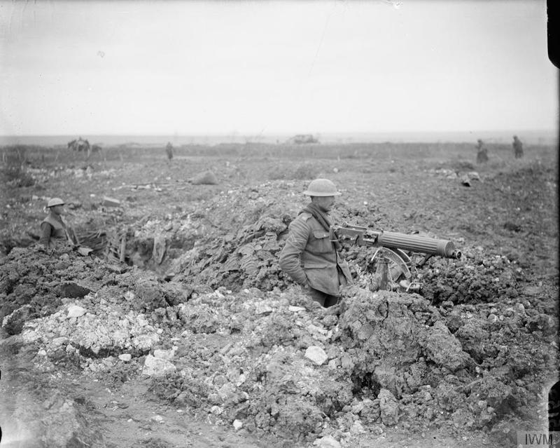 The Battle of Arras, April-may 1917 A Corporal of the Machine Gun Corps (MGC) stands at a machine gun post in a captured trench at Feuchy during the Battle of Arras, April 1917.